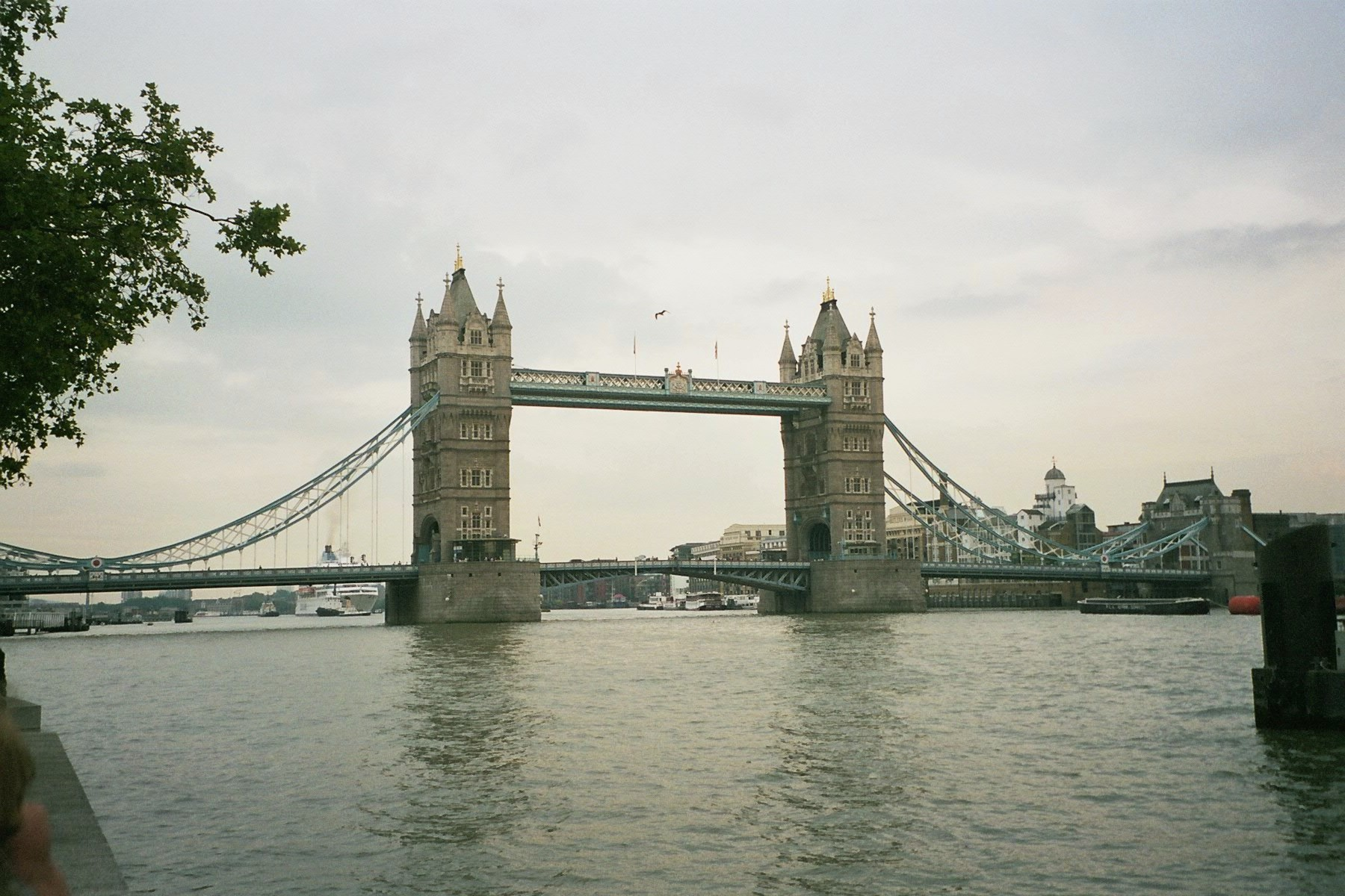 London, Tower Bridge